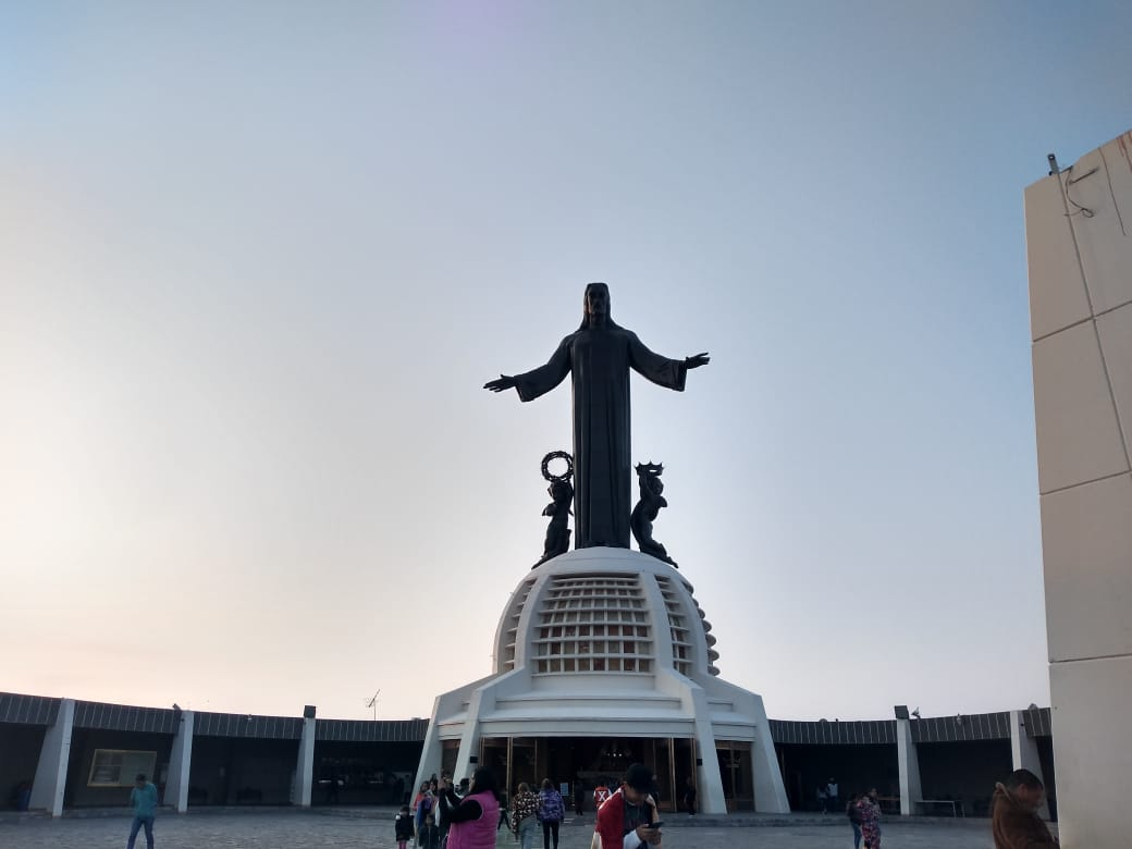 Cristo Rey que está ubicado en León Guanajuato.